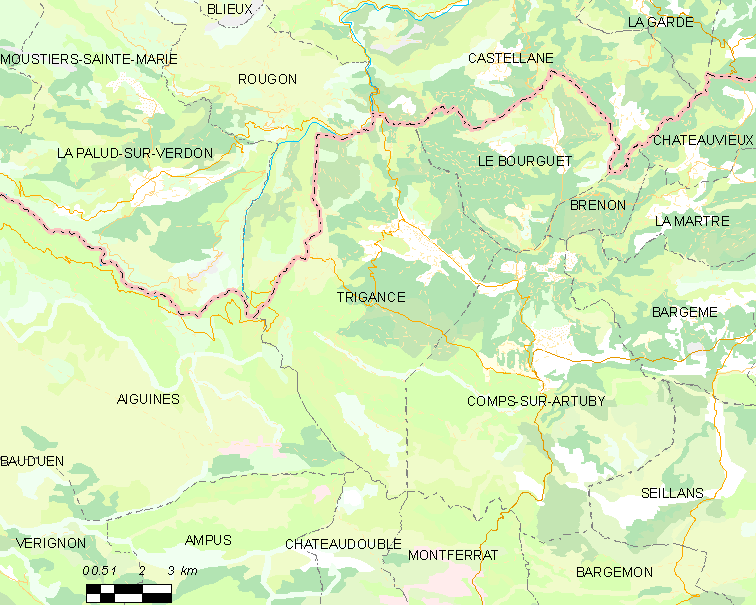 Map of French municipality Trigance